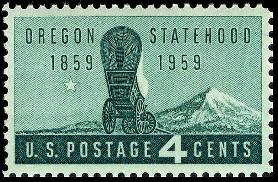 Oregon Statehood on a US postage stamp